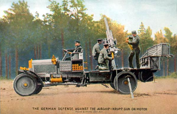 World War I colourized photograph showing German anti-aircraft gun mounted on a lorry.